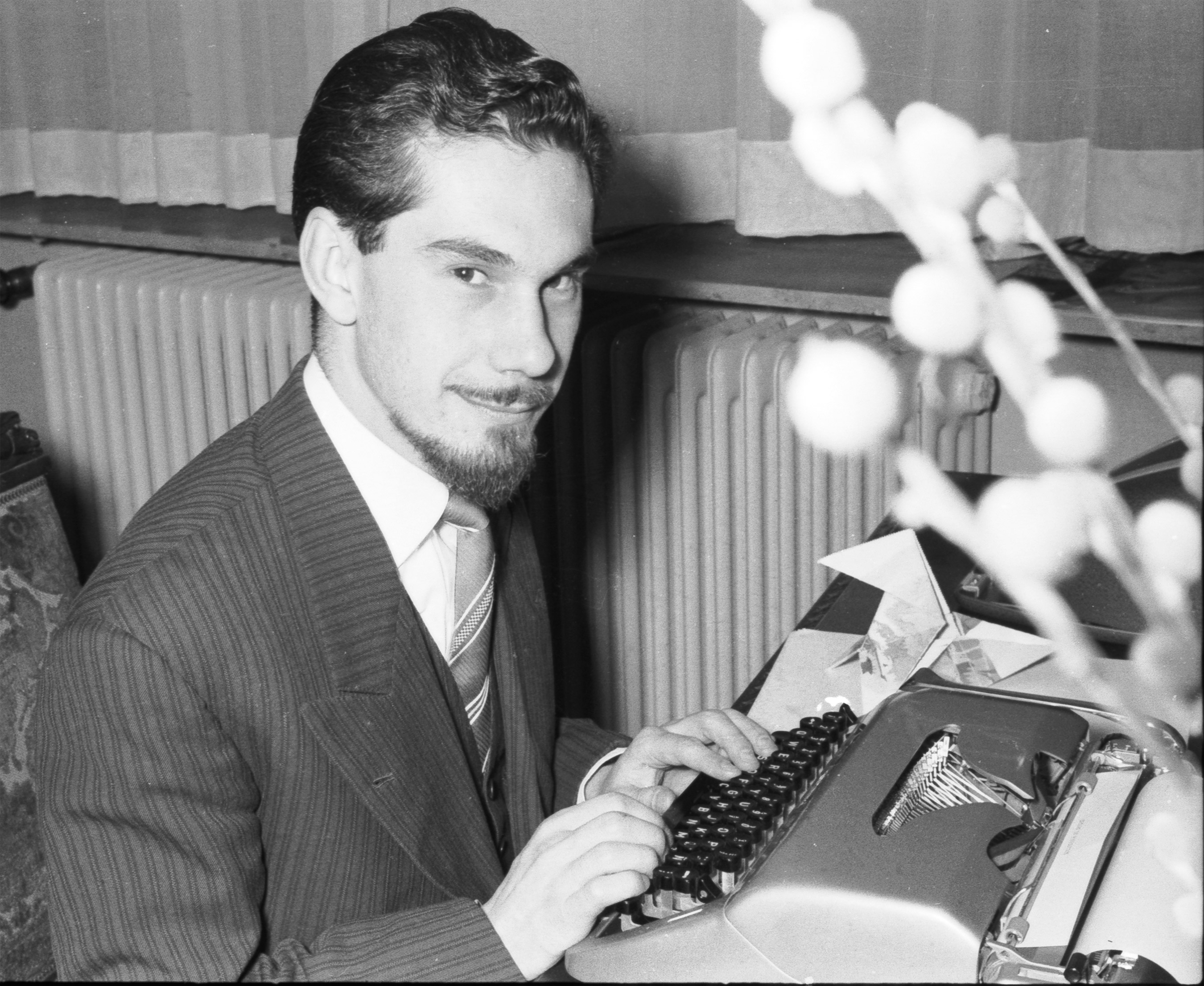 Colombian poet Eduardo Cote Lamus in Madrid, circa 1953